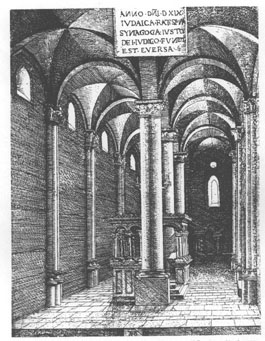 The double-naved Synagogue of Regensburg, 1519. Etching by Albrecht Altdorfer (German, Regensburg ca. 1480 - 1538). Source Synagoga Judaica (Juden-schül), Johannes Buxtorf